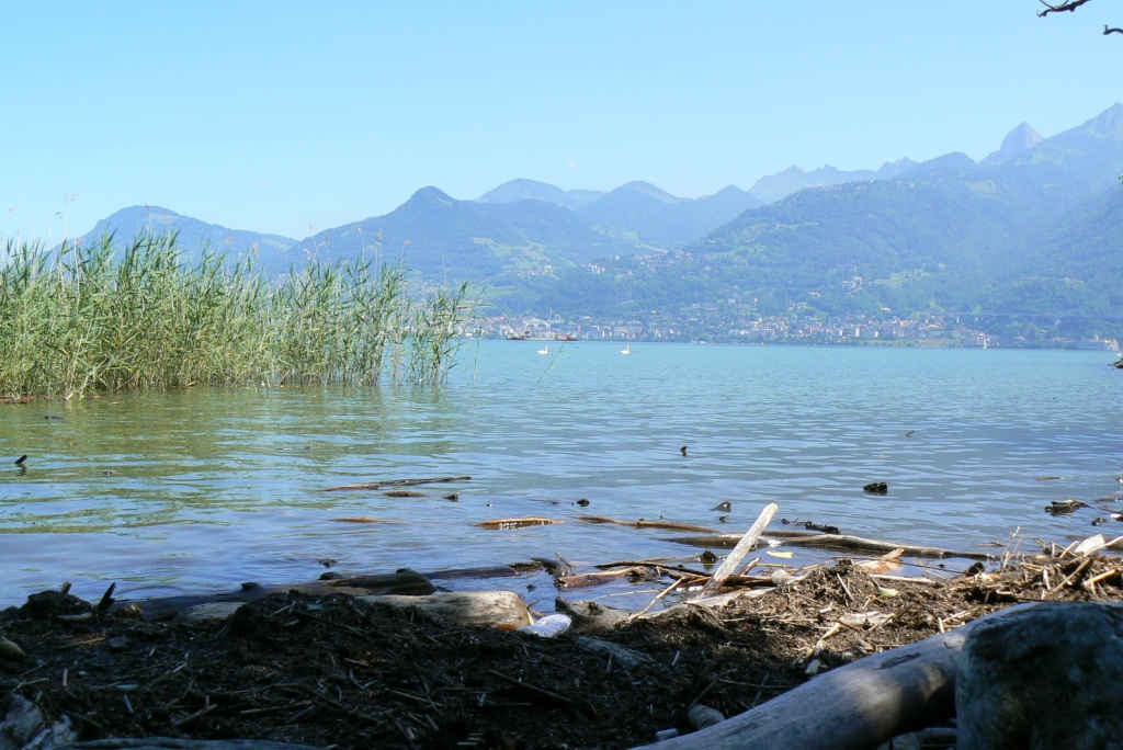 View over Lake Geneva from Noville municipality in Vaud, Switzerland